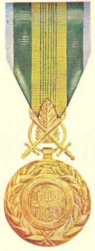 Obverse of the Military Merit Medal of South Vietnam